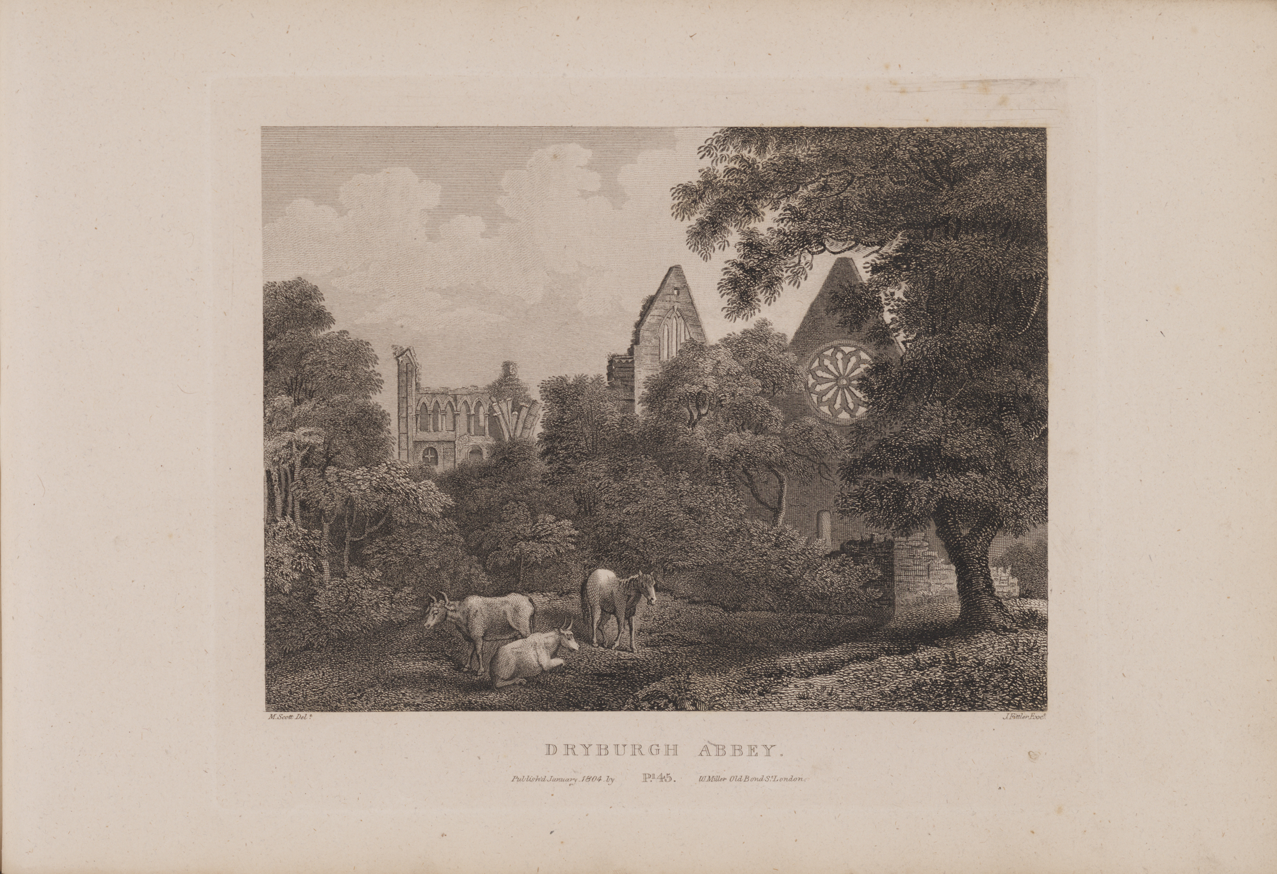 Plate XLV/b - John Claude Nattes made drawings of suitable scenes on the spot; etchings are by James Fittler.